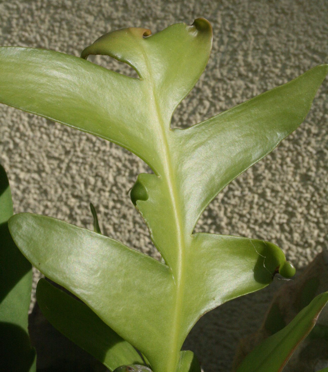 Selenicereus chrysocardium (according to IPNI) Selenicereus chrysocardius (according to Urs Eggli, Leonard E. Newton: Etymological Dictionary of Succulent Plant Names. Springer 2004. ISBN 3-540-00489-0)